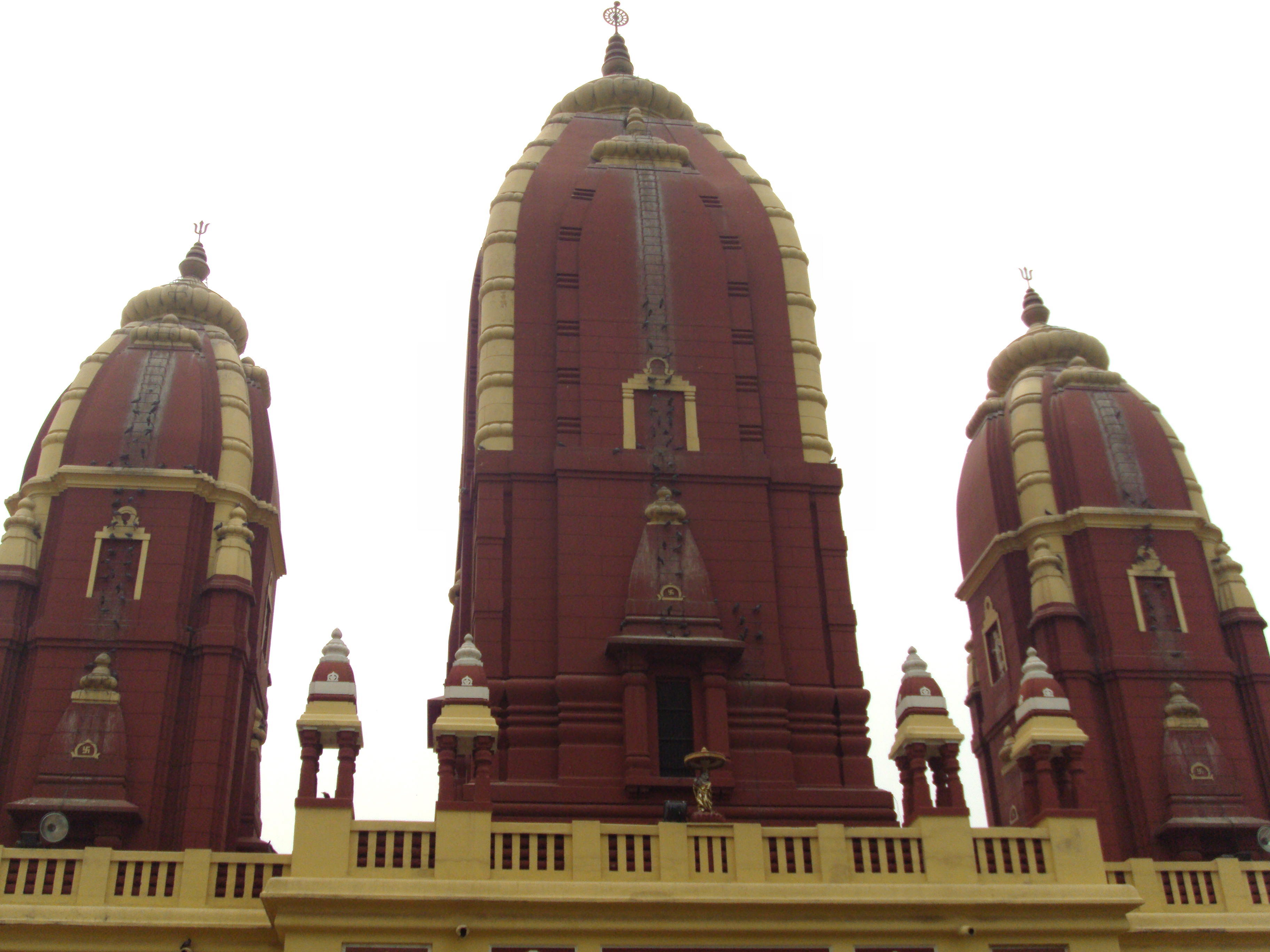 Birla mandir(Lakshmi Narayan mandir),Delhi